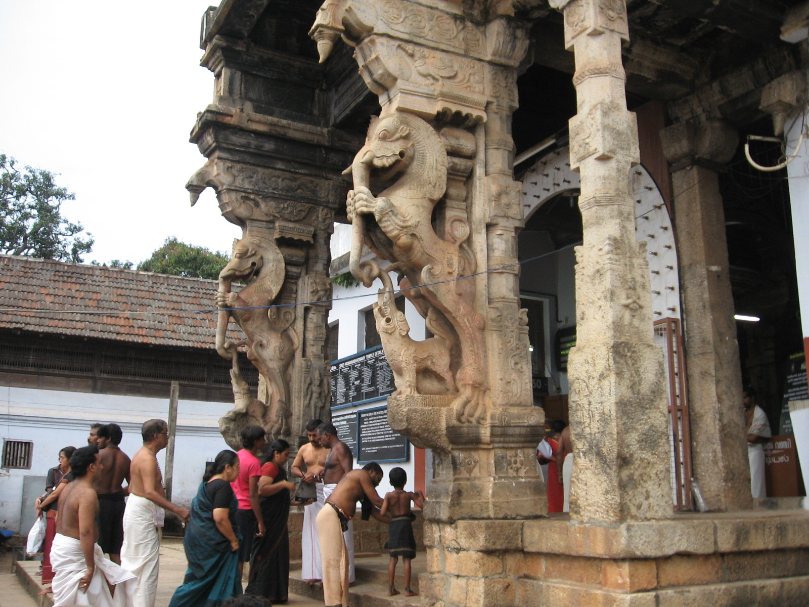 Entrance to Sree Padmanabhaswamy temple at Thiruvanthapuram